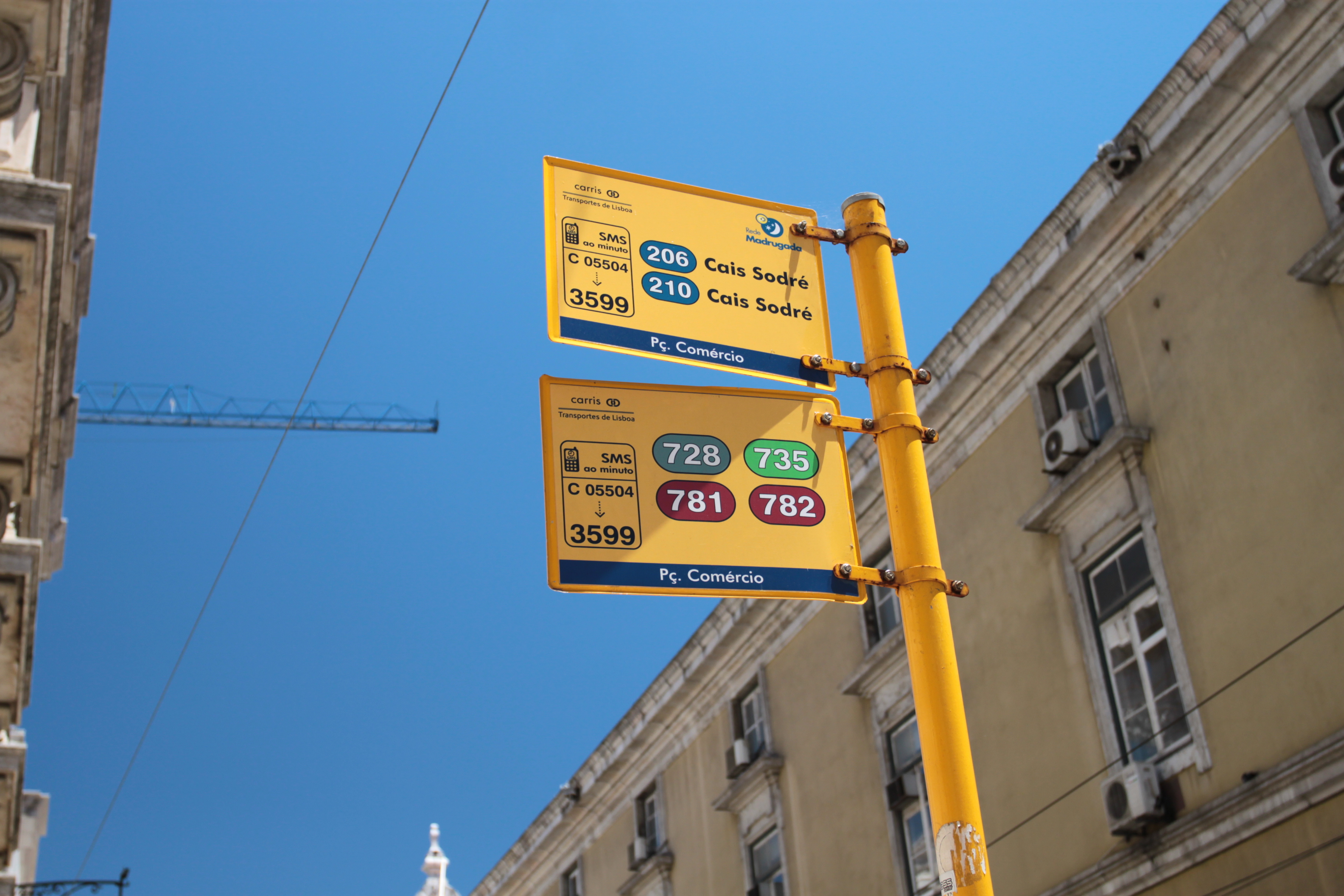 Lisbon